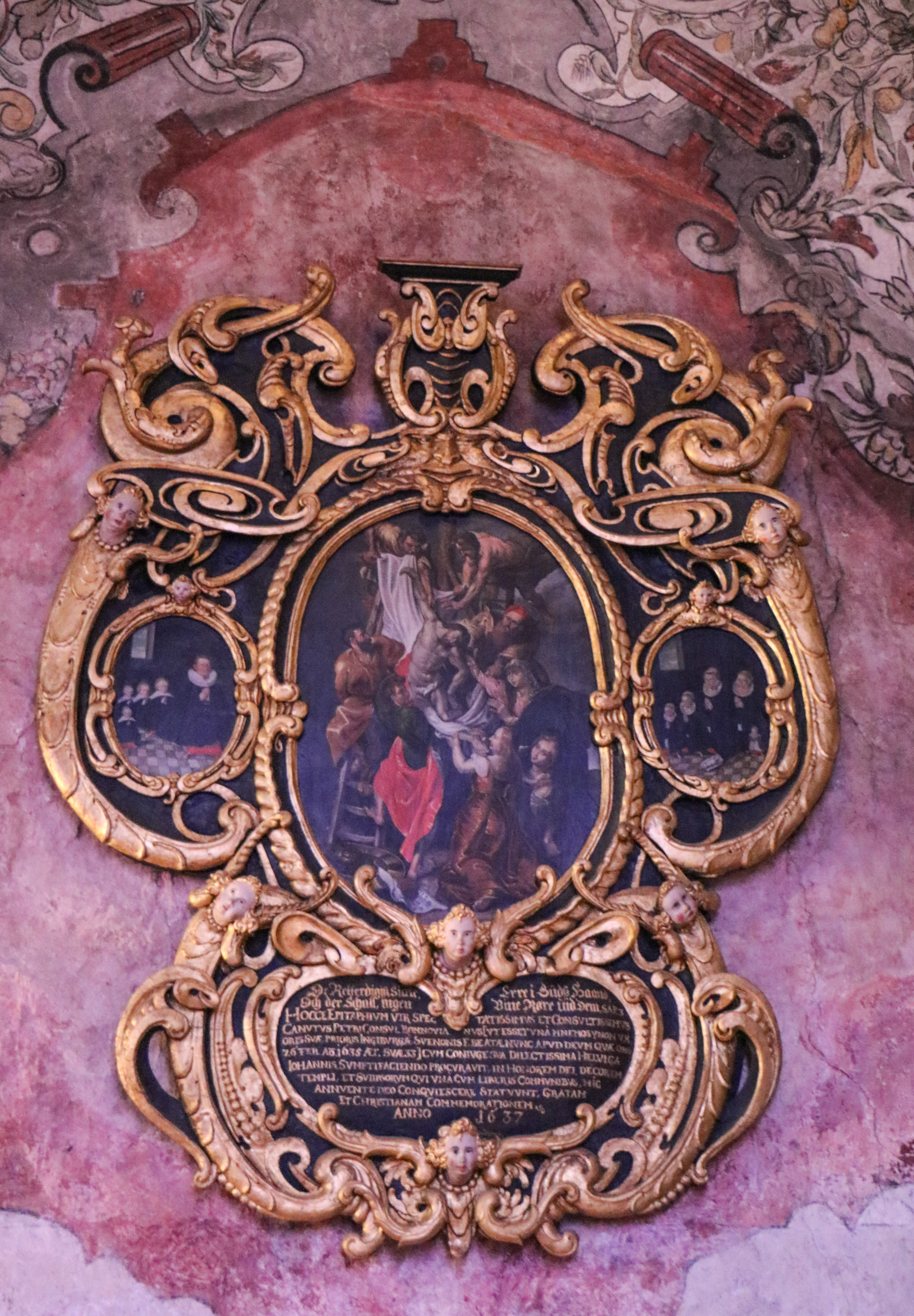 Holy Cross Church,Ronneby.Memorial tablet in memory of Mayor Knut Petersson with family 1637.